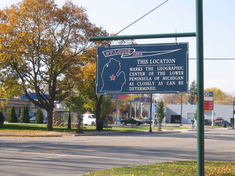 "Middle of the Mitten"; Saint Louis, Michigan photo by Stephen Gross, November 2005